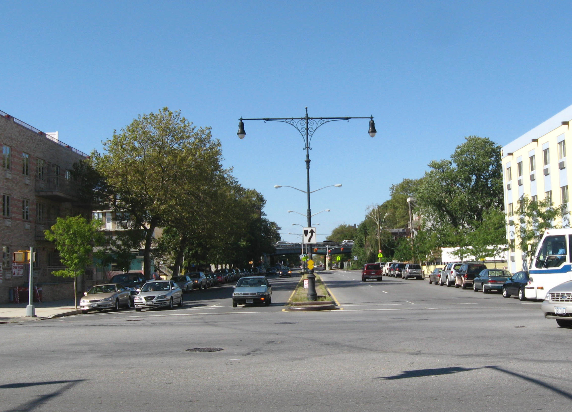 Looking north from the foot of Nostrand Avenue on Emmons Avenue on a sunny afternoon.